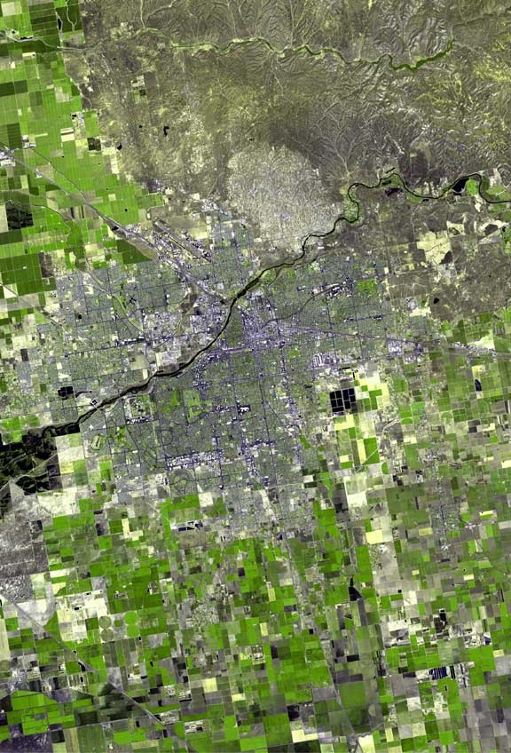 The raw satellite imagery shown in these images was obtain from NASA and/or the US Geological Survey. Post-processing and production by